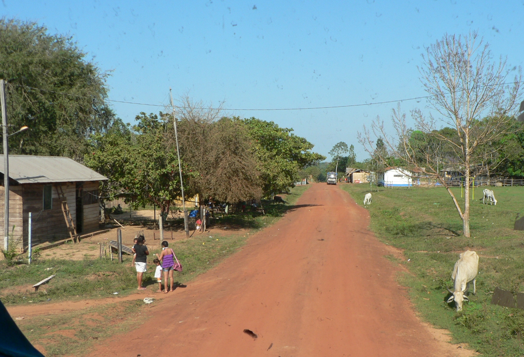 Main street of Peña Amarilla, Beni, Bolivia (2014).